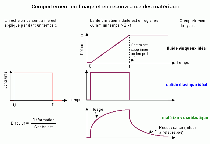 Creep and recovery behaviour for three types of materials.